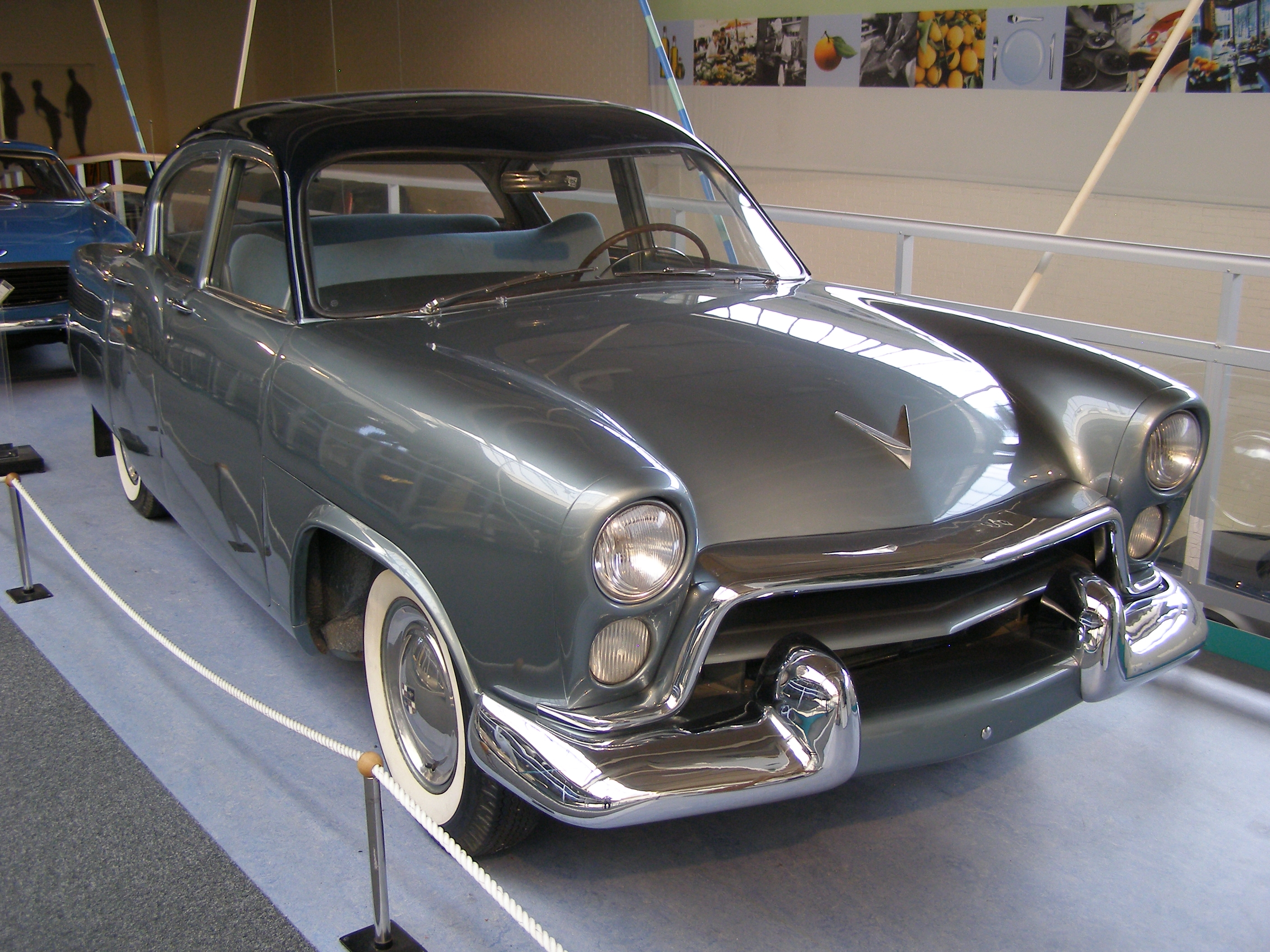 Gothenburg - Volvo Museum - Volvo Philip prototype